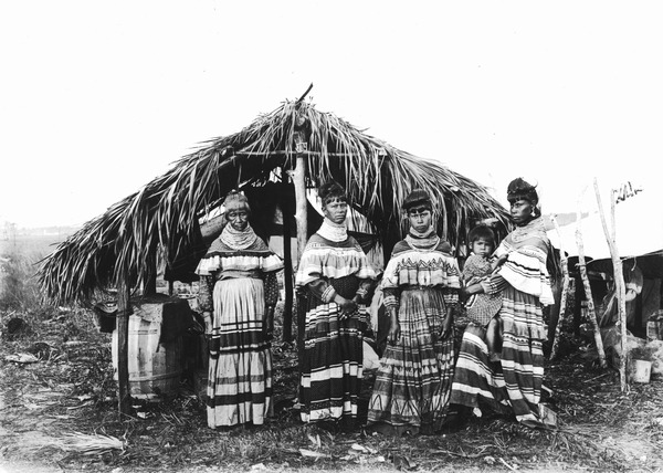 Seminole family of Cypress Tiger at their camp, near Kendall, Florida, 1916. Photographer: Botanist John Kunkel Small, 1869-1938.